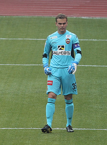 Igor Akinfeev